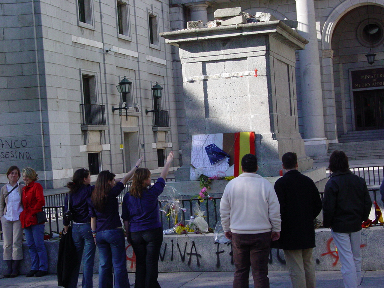 People showing fascism symbols in a Franco monument in Madrid